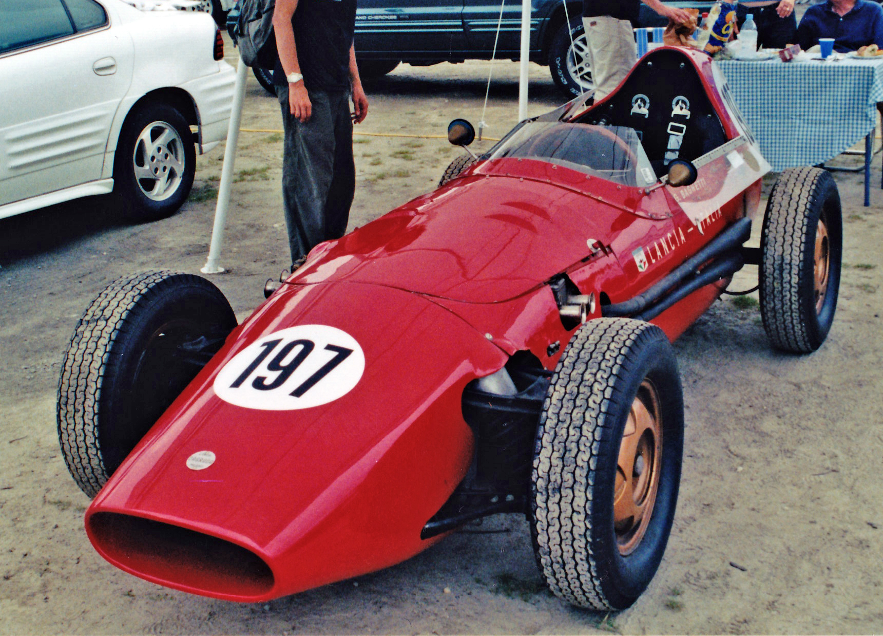 A 1959 Lancia Appia-engined Formula Junior car by Dagrada. This car used to be raced by then not-yet Ferrari driver Giancarlo Baghetti.